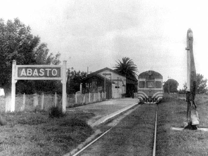 A Fiat 7131 railcar, stopped at Abasto station of Gral. Roca Railway. That station was part of the Ringuelet-Brandsen branch, closed in 1977.